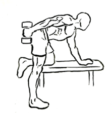 an exercise of triceps